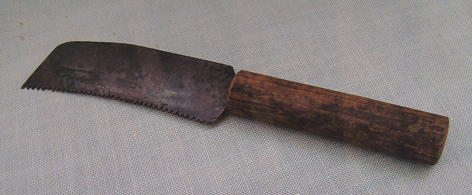 Reconstruction of a roman hand saw (lamina, serrula ferrea), with wooden handle. Found in 1909 in a insula at the forums road in Cambodunum, Kempten, Germany. Dating to 1st to 3rd century AD.